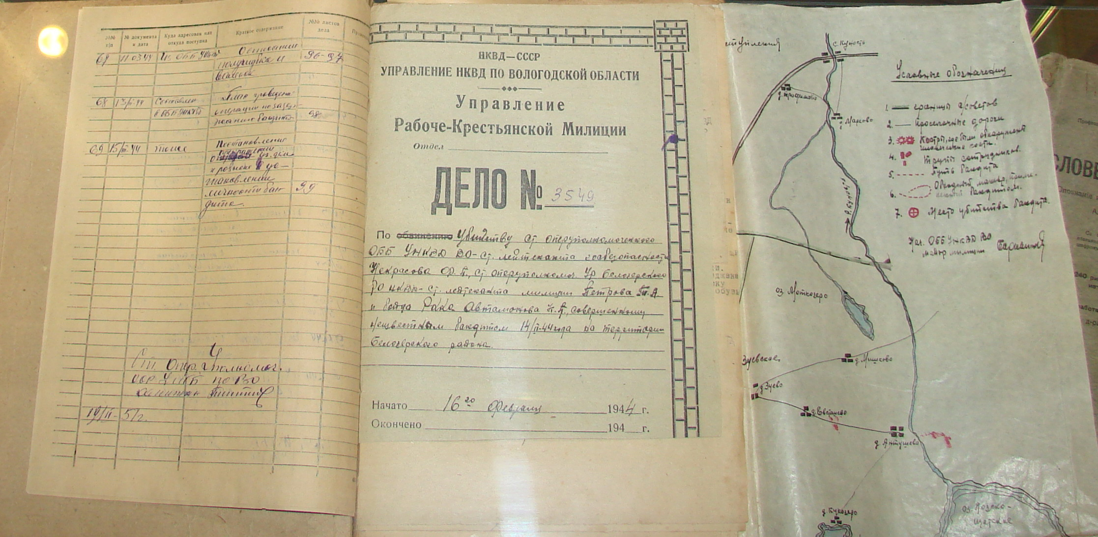 Russia, Vologda, militsiya museum